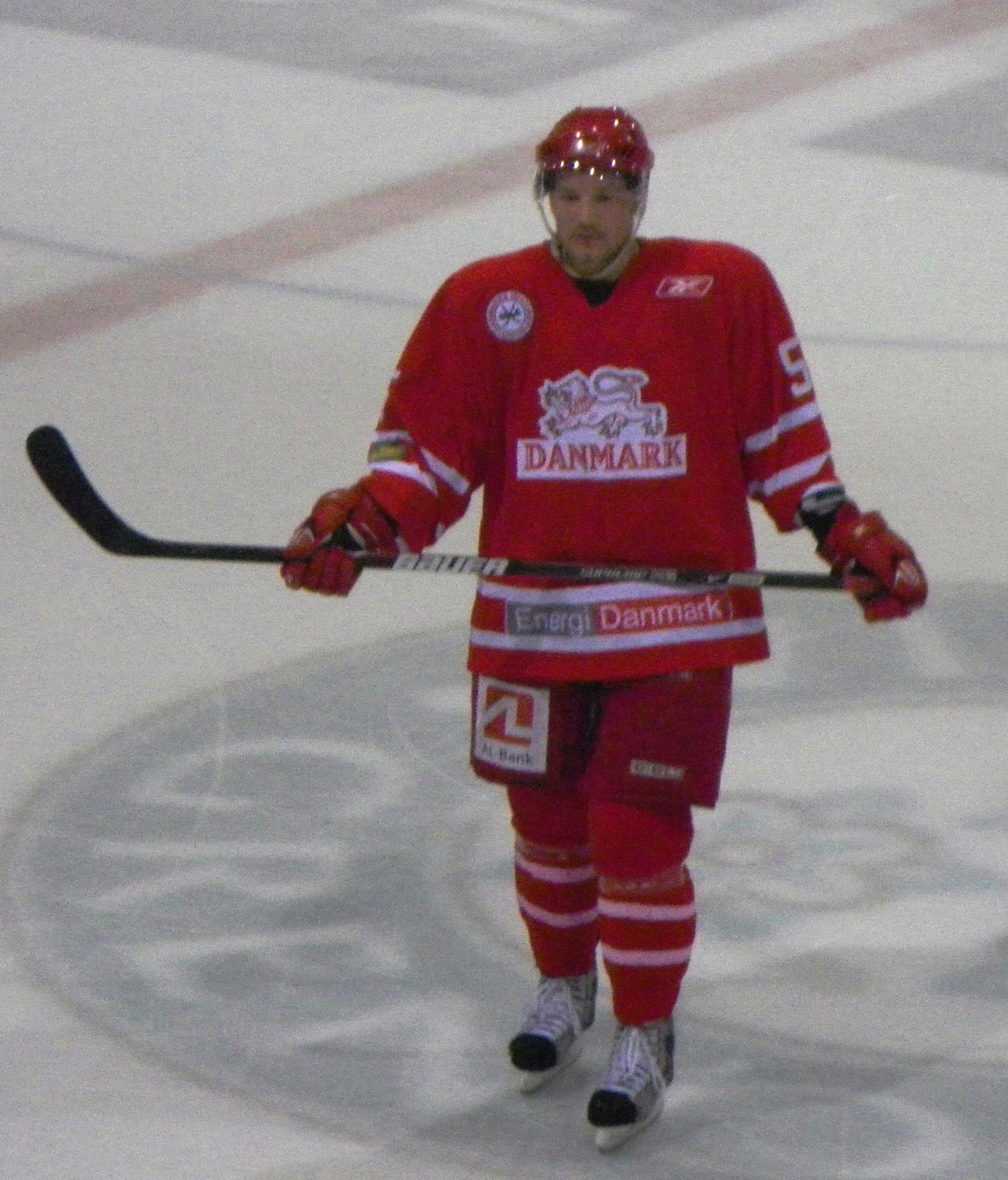 Daniel Nielsen, danish ice hockey player with team Denmark. Friendly against team France.